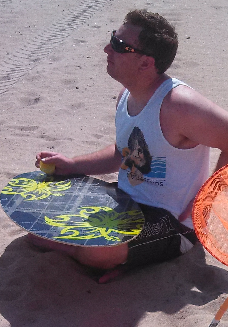 Surfwax